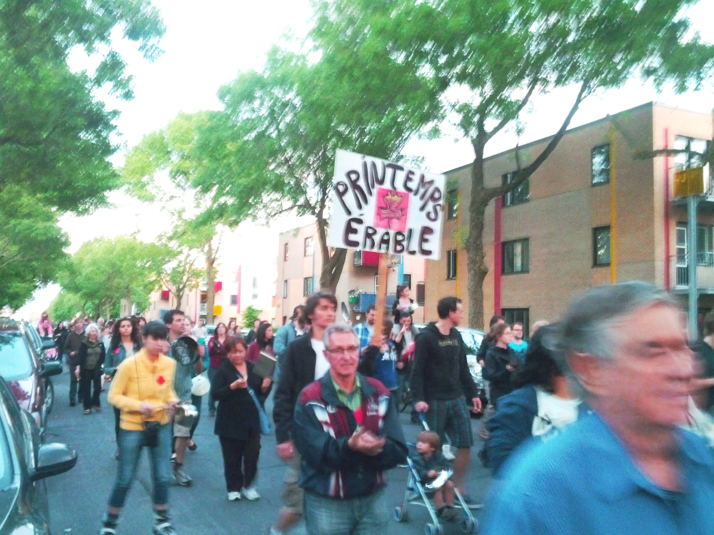 Printemps érable (Maple Spring). Pots and pans protest in Montreal, Quebec, against Bill 78, 31 May 2012.